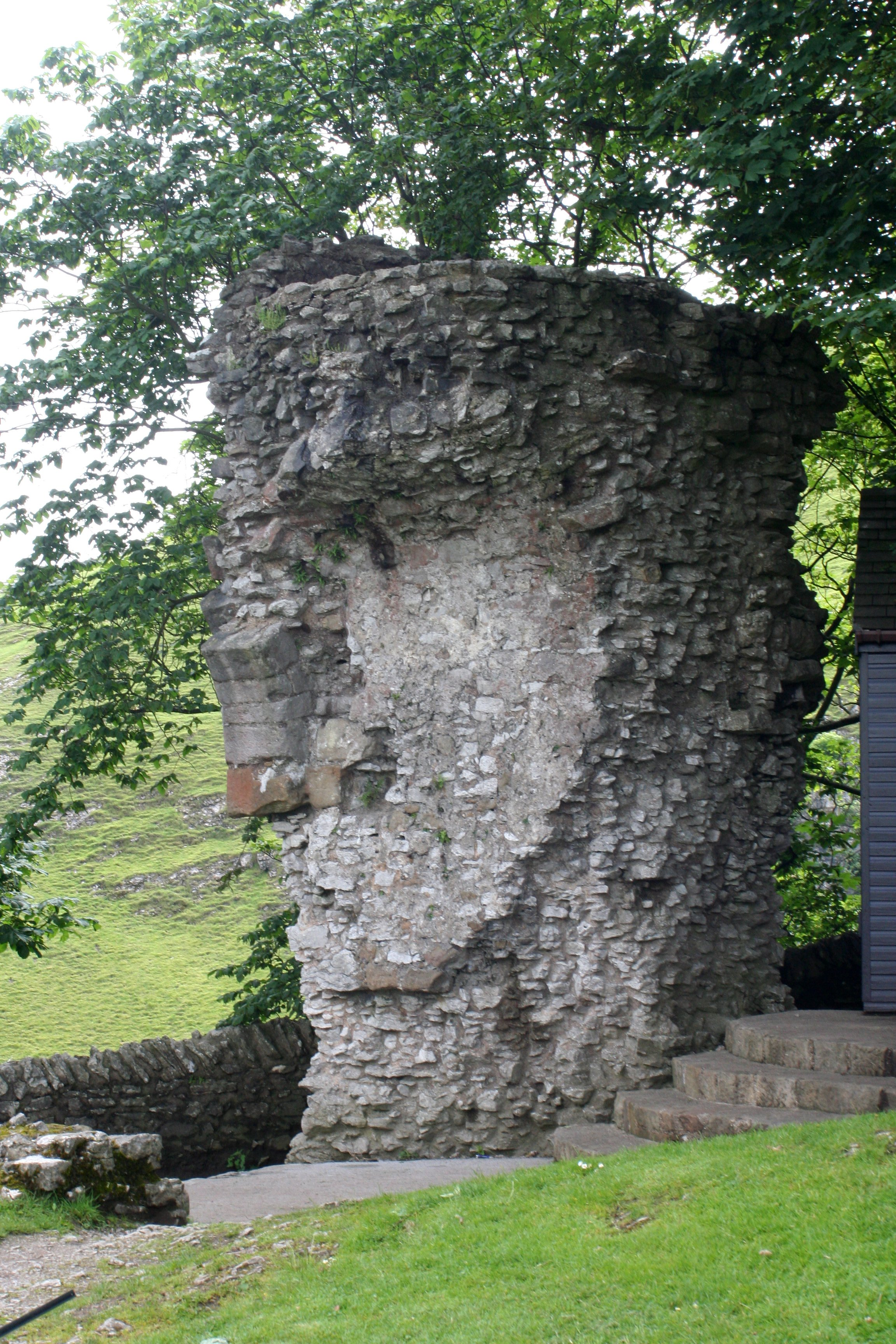 Remains of wall where the northeast gate of Peveril Castle stood.